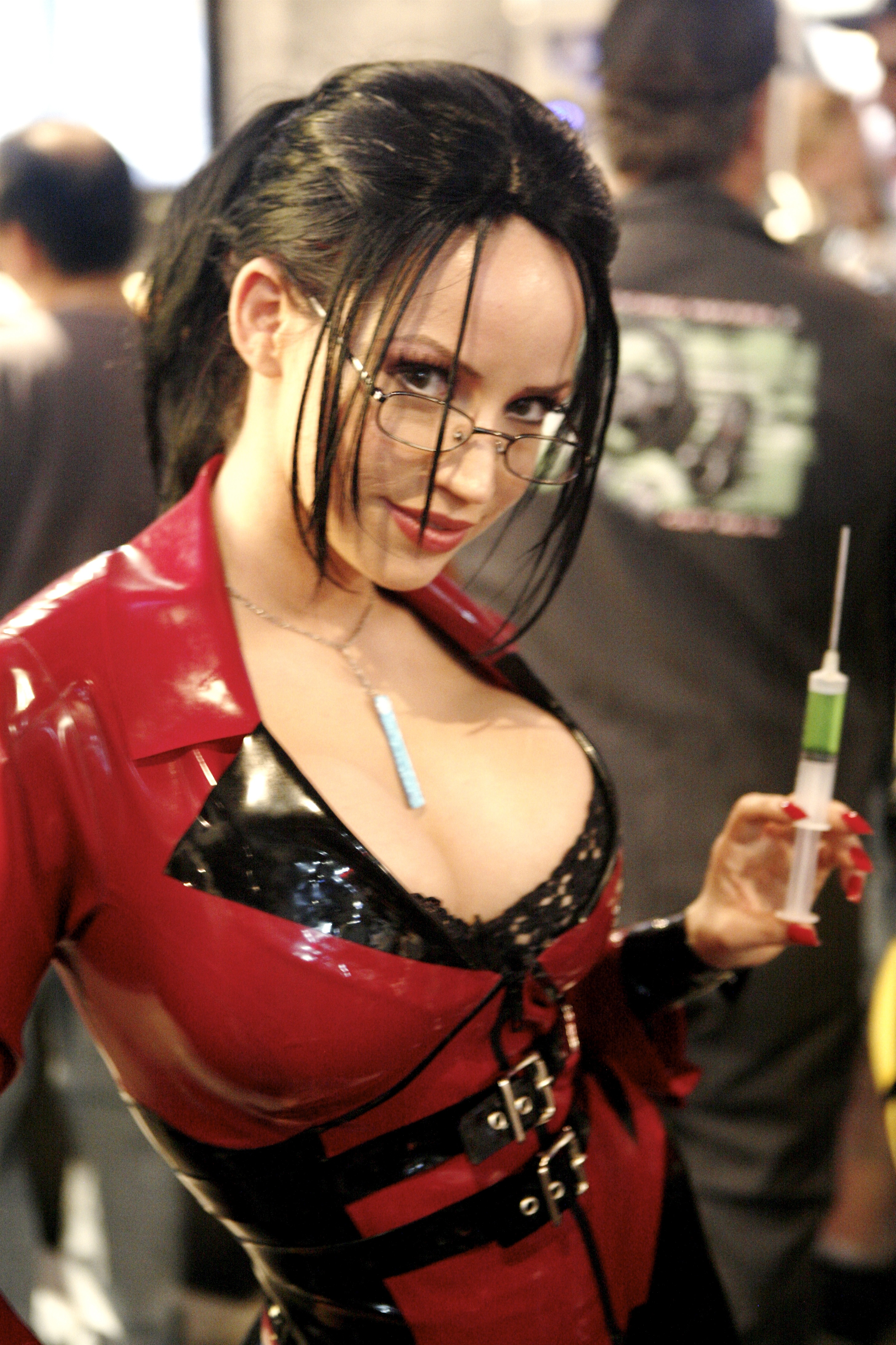 SiN Episodes promotion at the E3 2005.